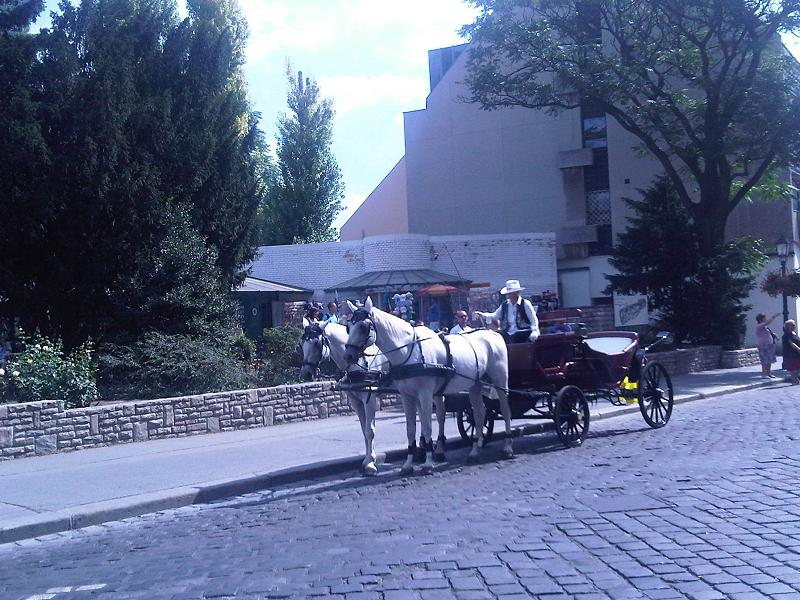 Two Lipizzan or Lipizzaner horse pulling a carriage in Budapest, Hungary.